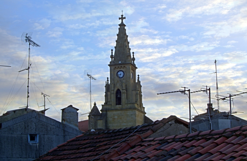 Church of Orereta (Basque Country)